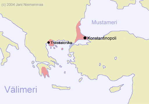 Byzantine Empire, ca 1400, with Finnish titles. See Image:Byzantium1400.png for the English translation.